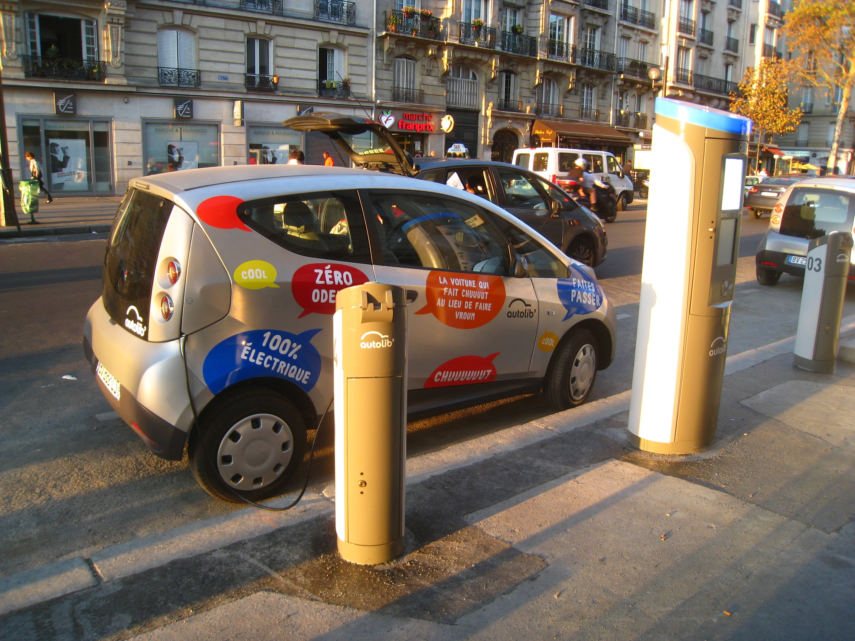 Autolib' Station on boulevard Diderot, Paris XIIe arrondissement, France. A car is currently being charged.